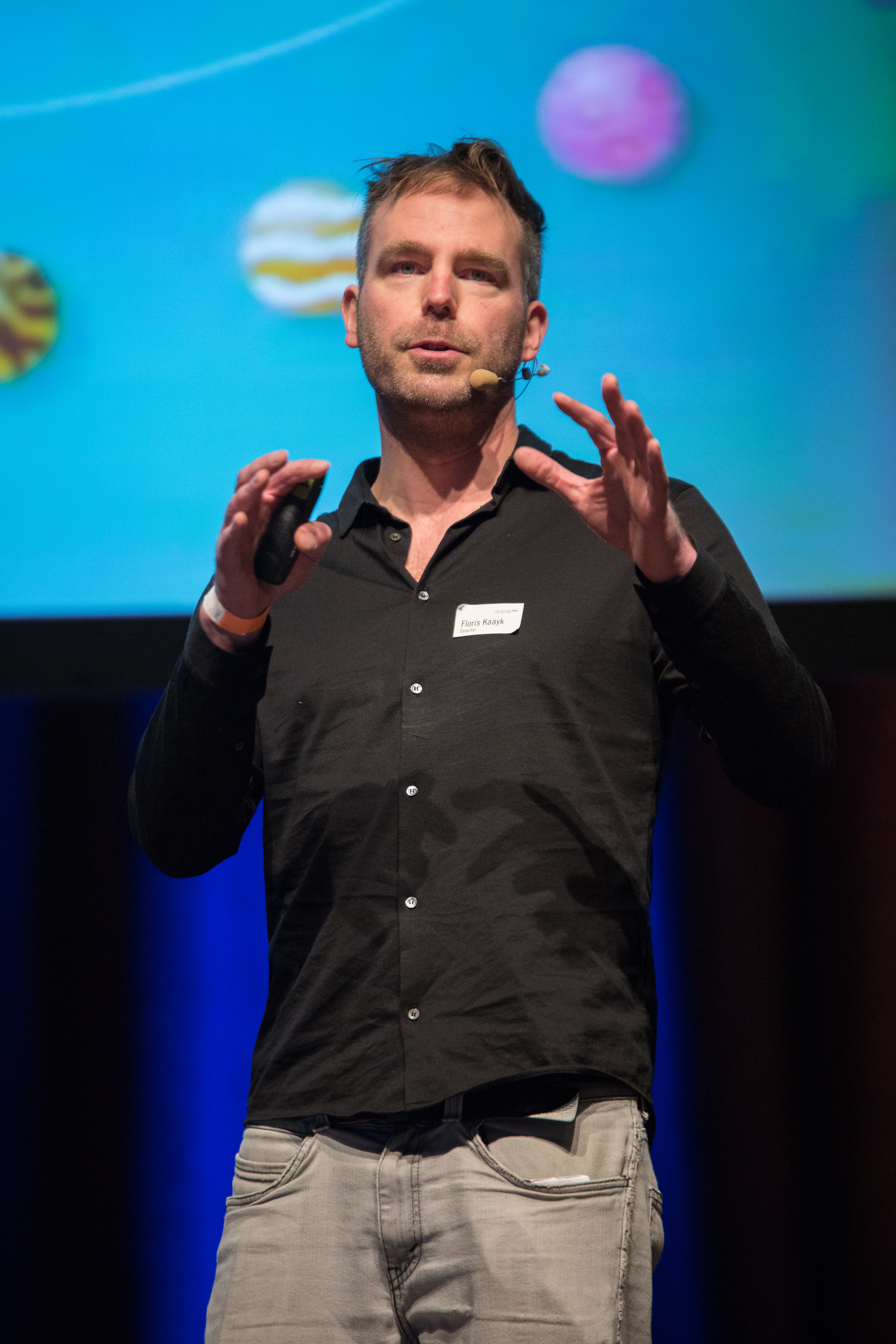 Floris Kaayk at the See-Conference 2017 in the Schlachthof Wiesbaden